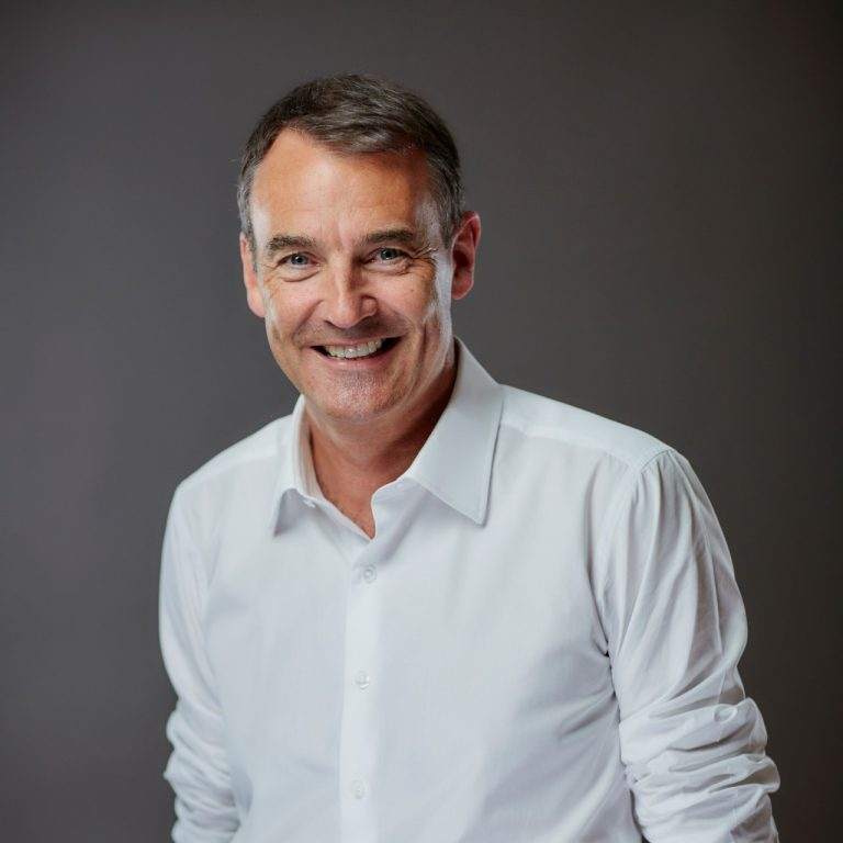 Bernard Looney, CEO-designate of BP